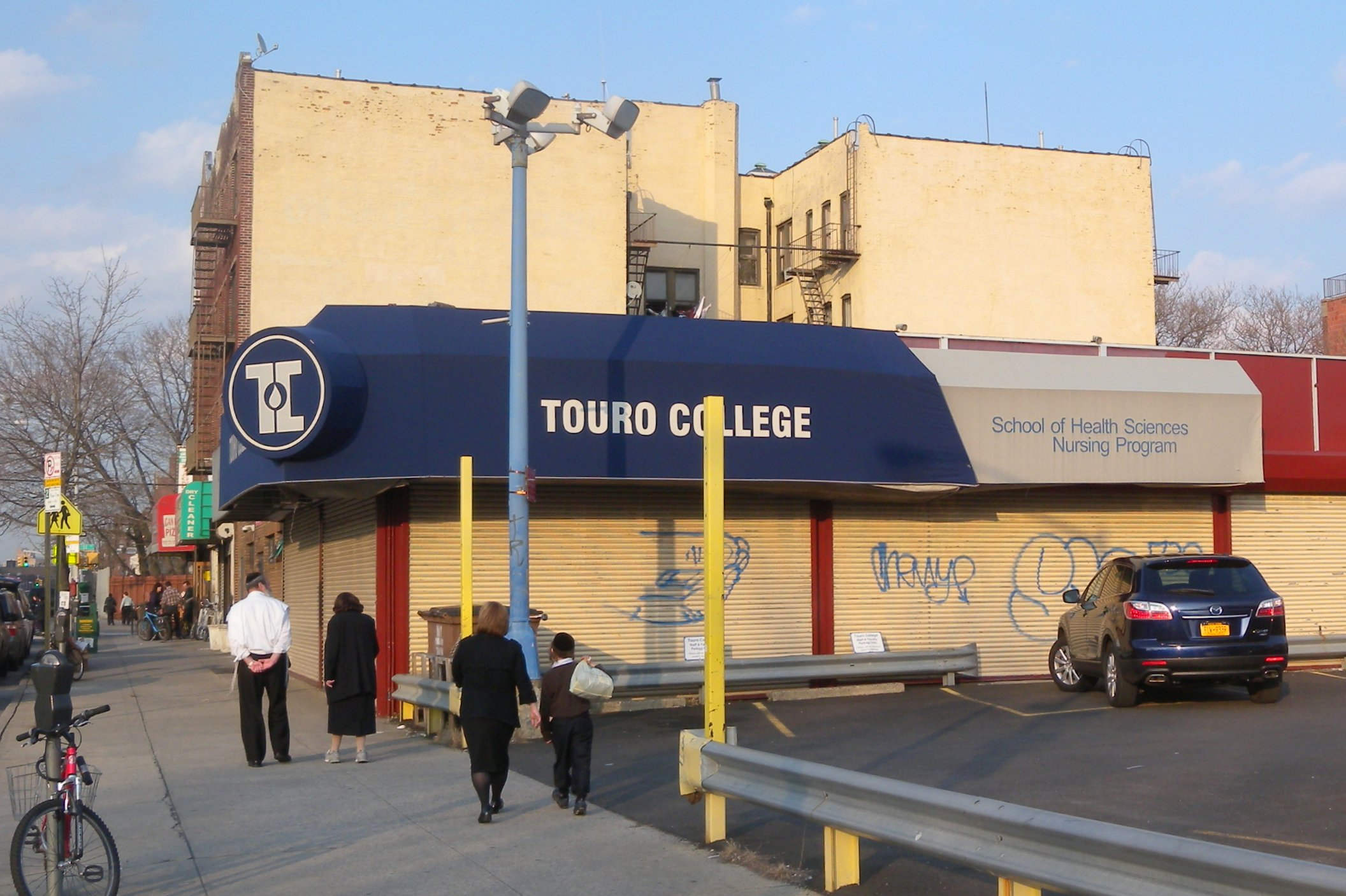 Looking northeast from 54th St at Touro Nursing Program on a sunny late afternoon.